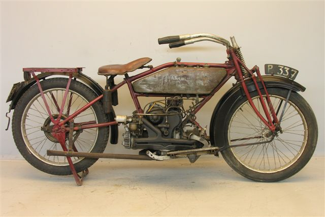 Harley-Davidson 22WJ 600 cc 1922